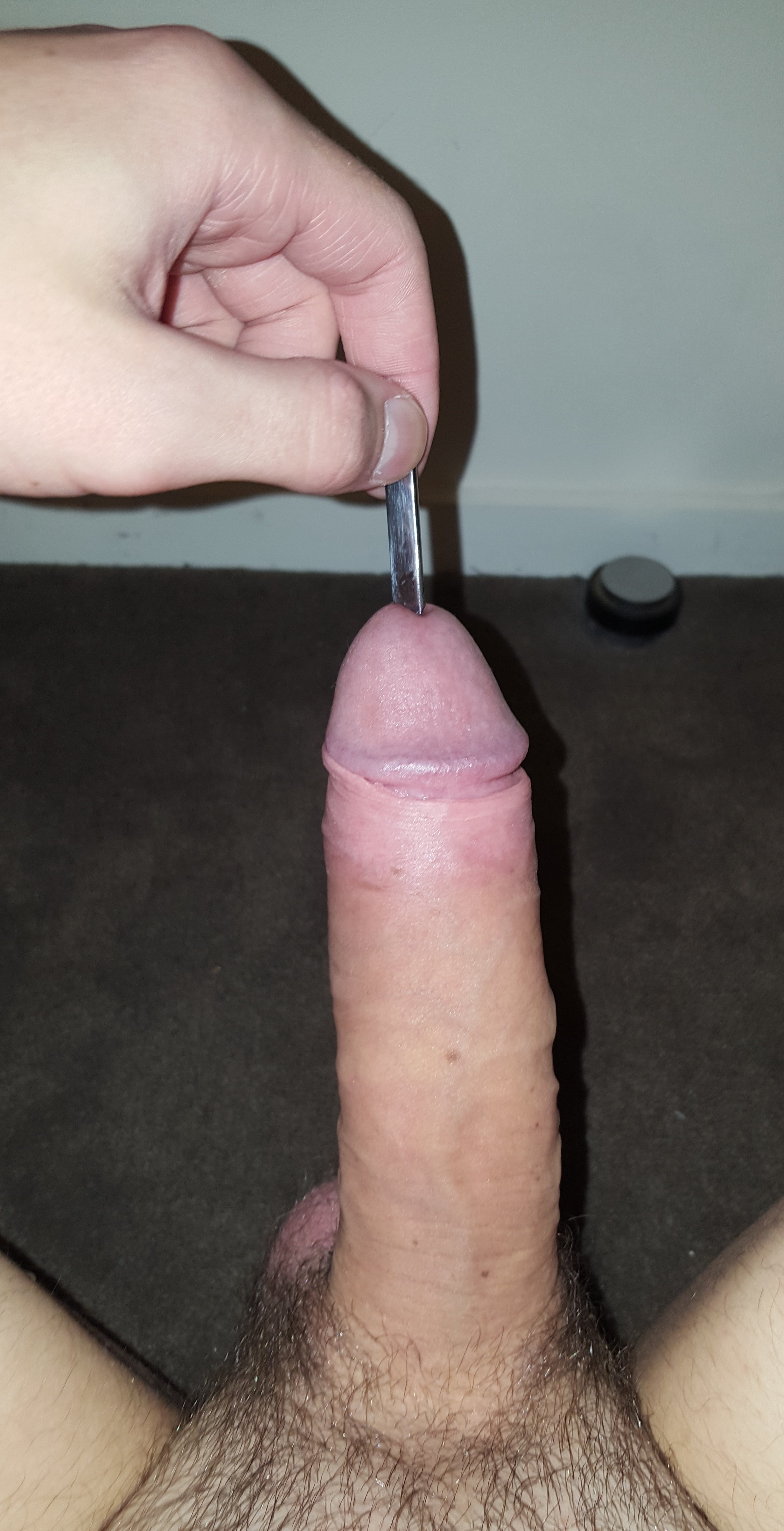 Human male urethra being dilated with a metal hegar sound.